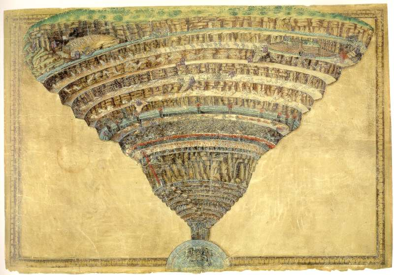 Created after Dante's Divine Comedy.